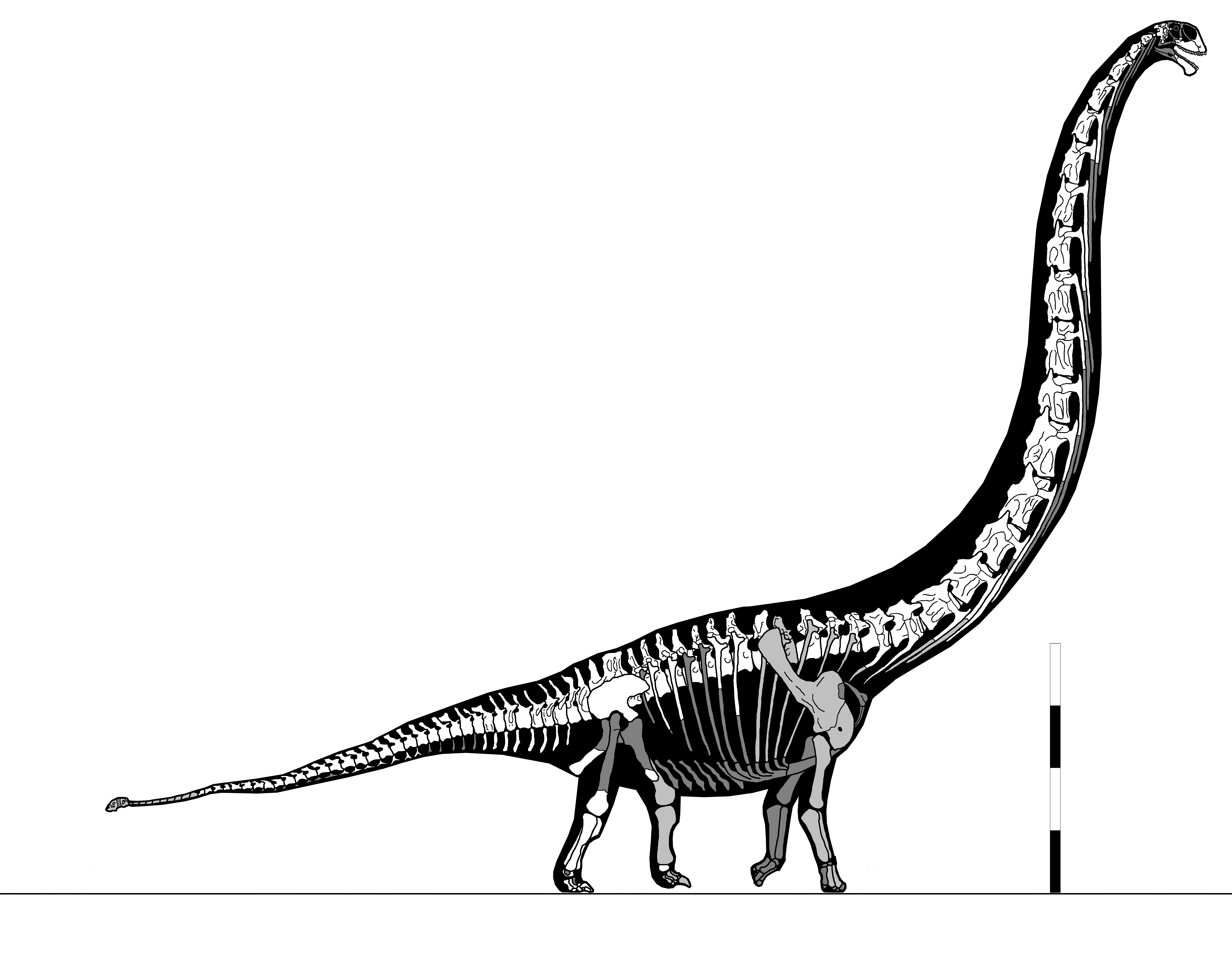 Skeletal diagram of Mamenchisaurus hochuanensis. Text has been removed for simplicity.